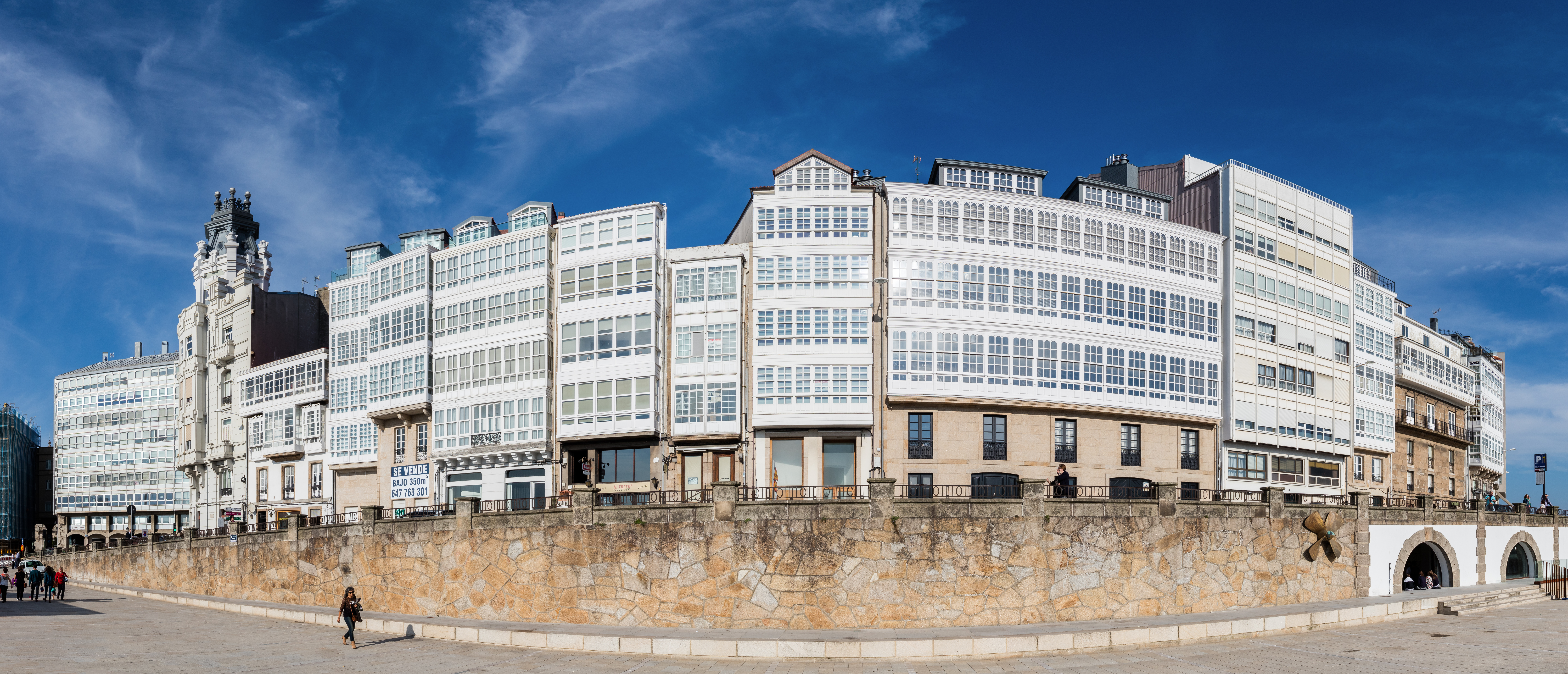 Dársena Avenue, La Coruña, Spain